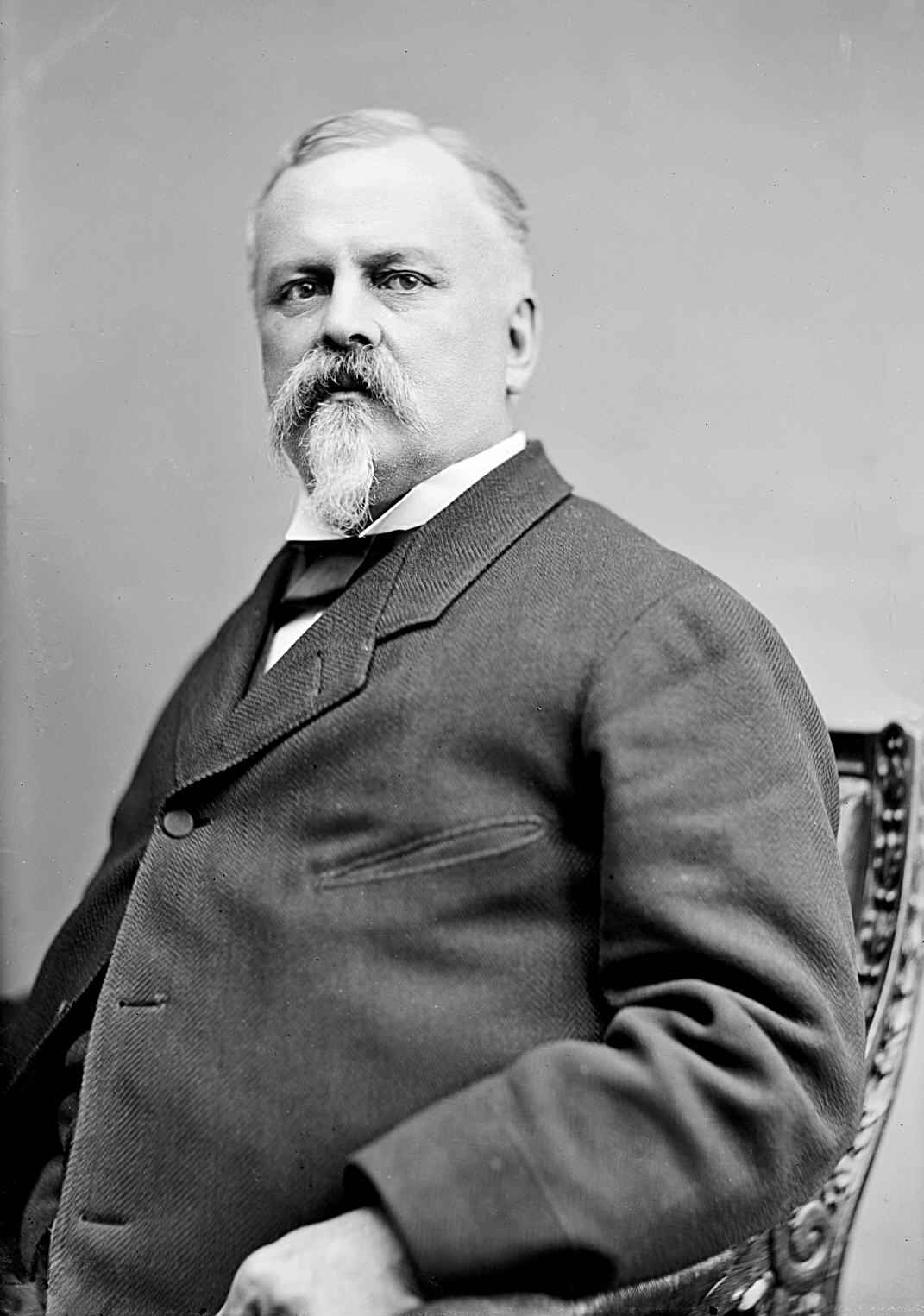 Portrait photo of the Honorable Rep. Hiester Clymer